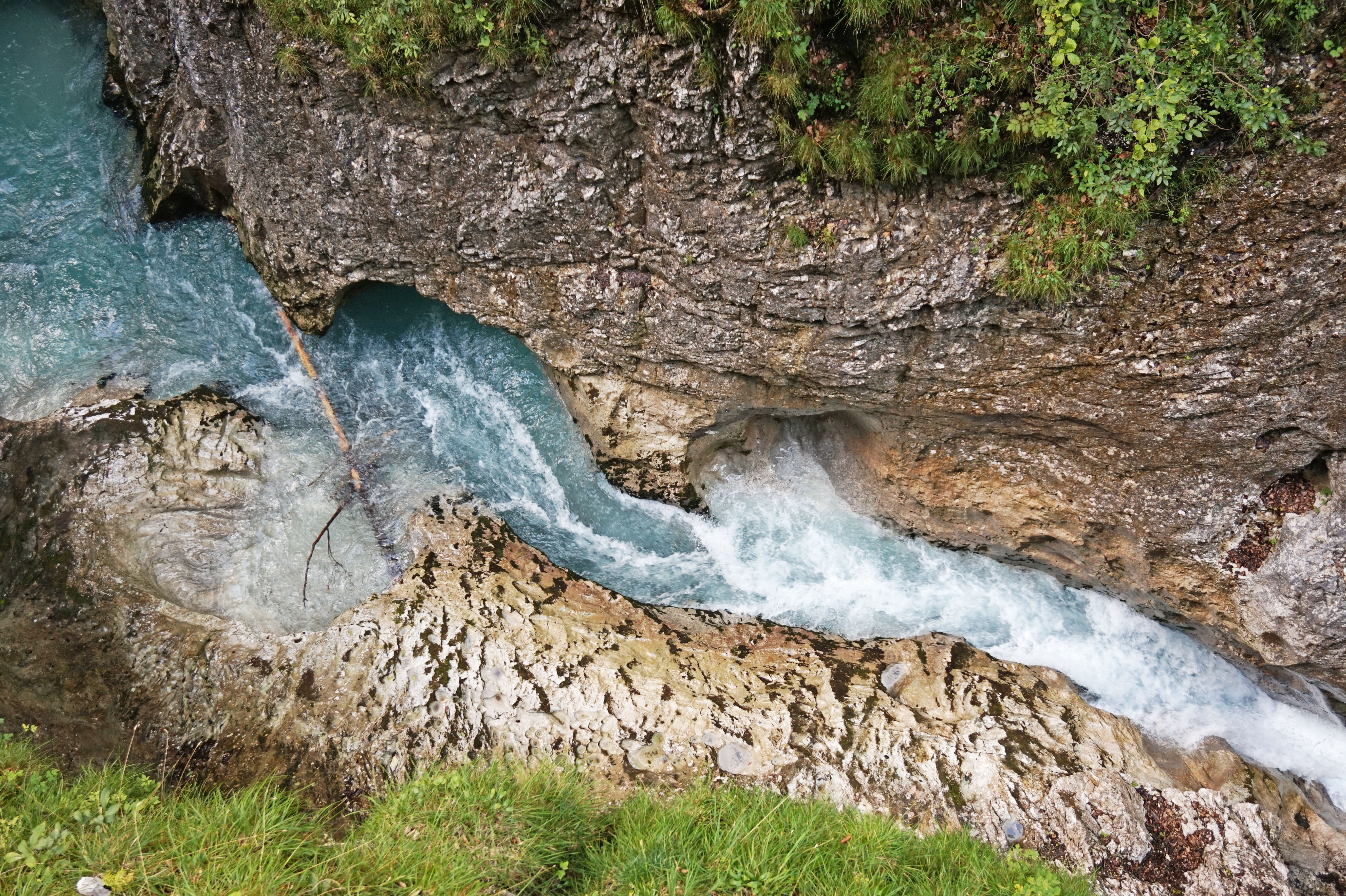 Leutascher Ache river, Leutaschklamm Gorge.This photograph was taken with a Sony ILCE-5000